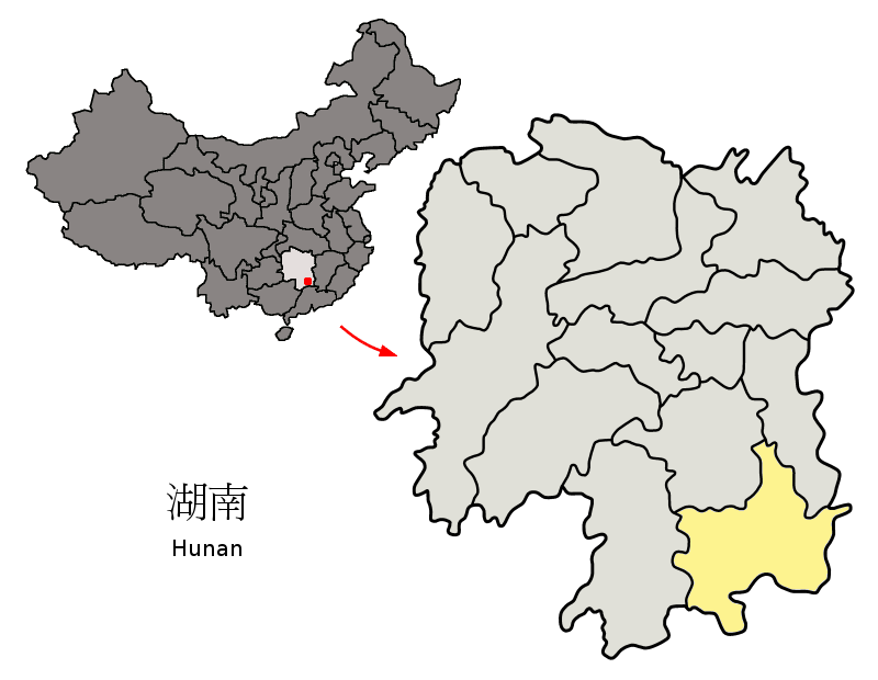 Location of Chenzhou Prefecture (yellow) within Hunan Province of China Map drawn in december 2007 using various sources, mainly : Hunan Province administrative regions GIS data: 1:1M, County level, 1990 Hunan Counties map from